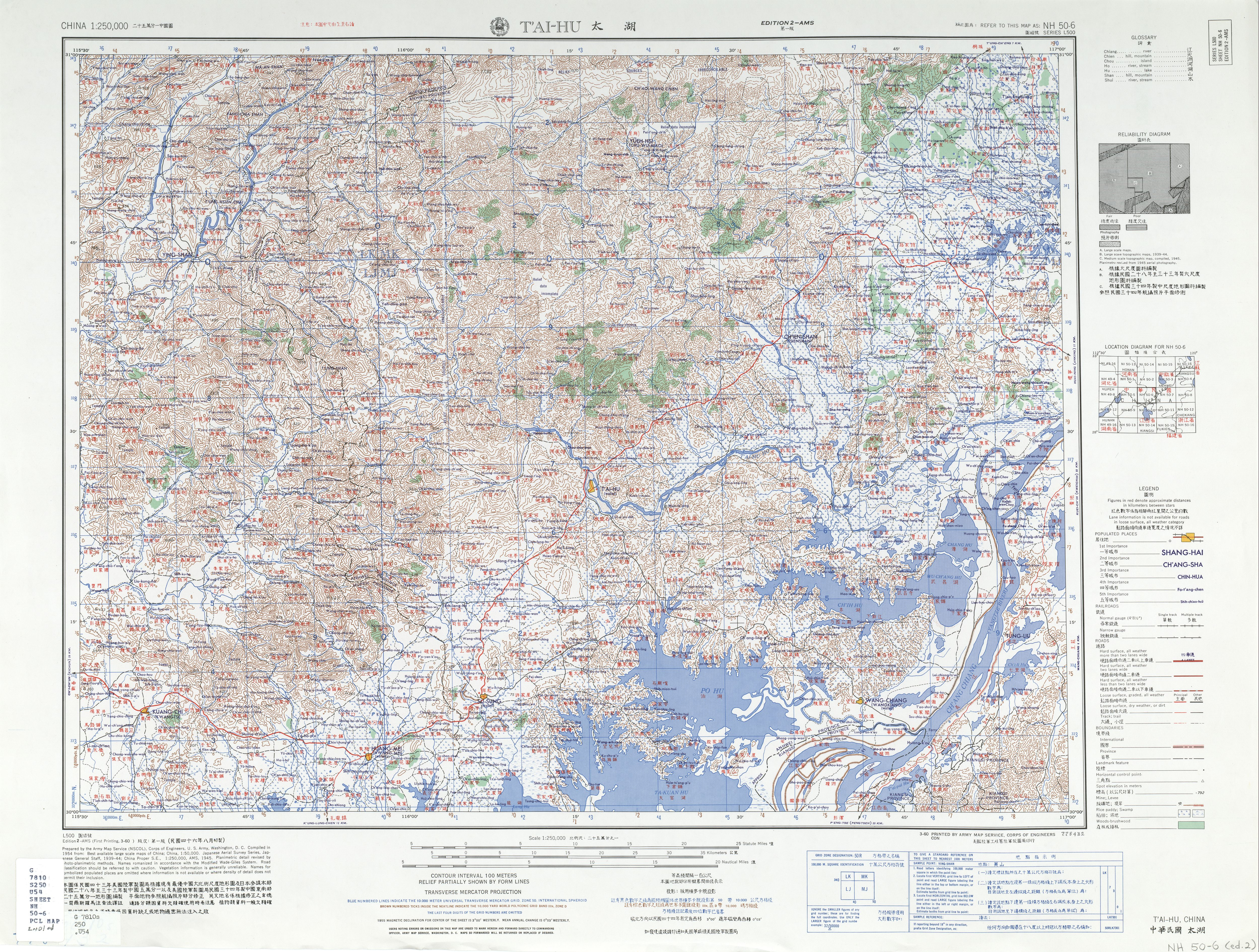 China AMS Topographic Maps series